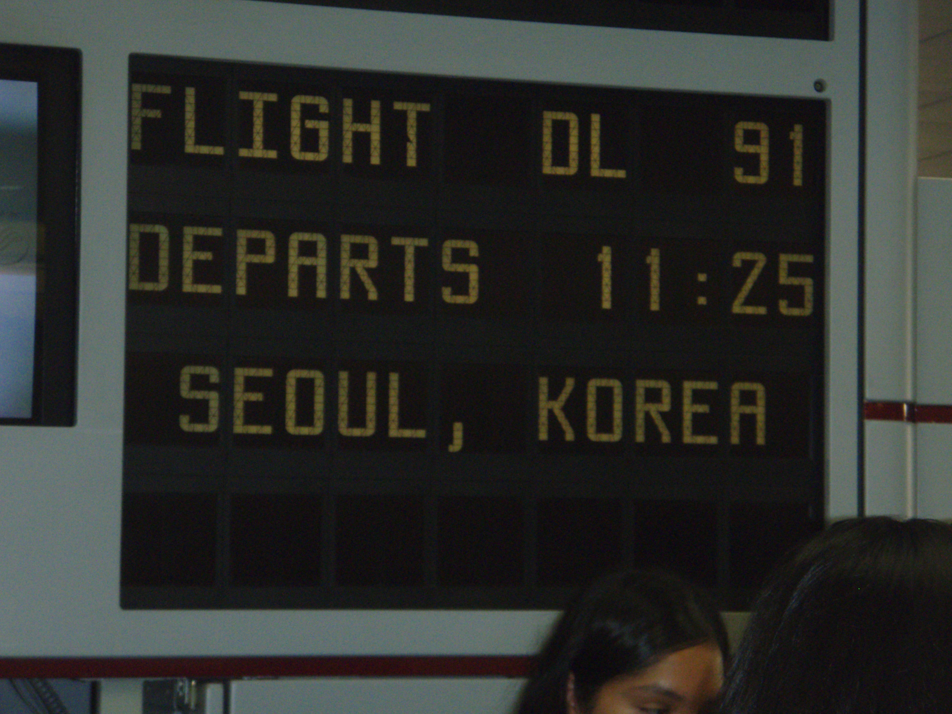 The sign at Gate E14 at Atlanta International Airport indicating that the destination for the flight will be Seoul, Korea. Picture taken by User:NHRHS2010 on July 27, 2007.